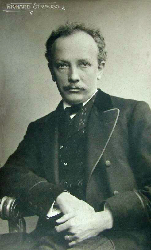 Postcard photo of German composer Richard Strauss